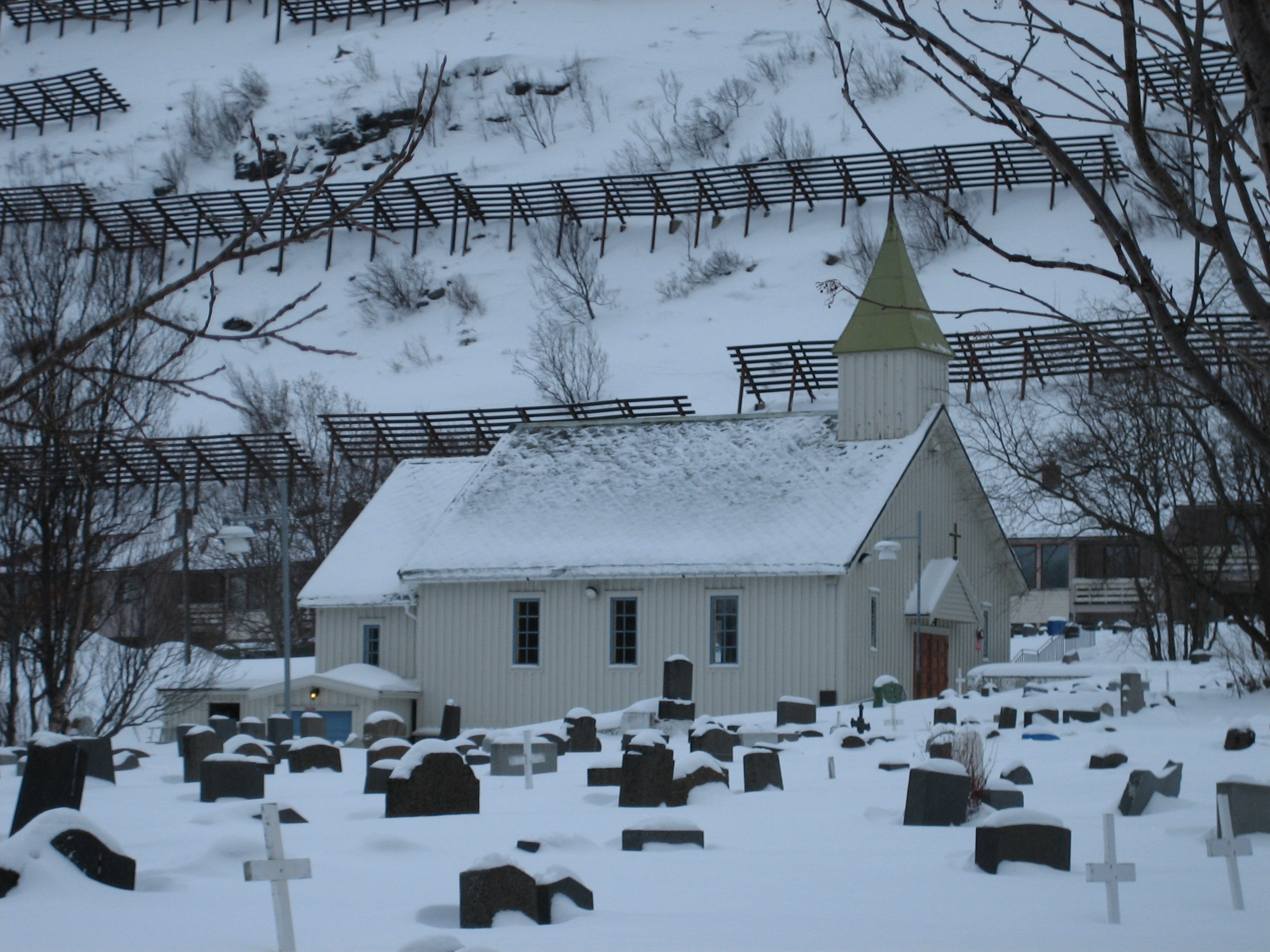 Hauen funeral chapel - the only building left standing in the Norwegian town of Hammerfest after World War II.